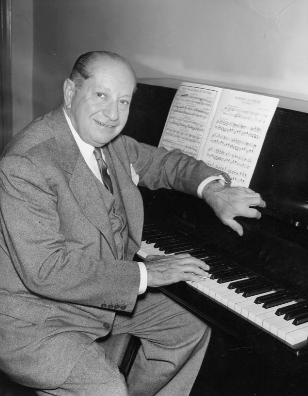 Photo of composer Sigmund Romberg.